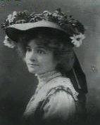 Portrait of actress Stephanie Longfellow by photographer Elmer Chickering of Boston, Mass.